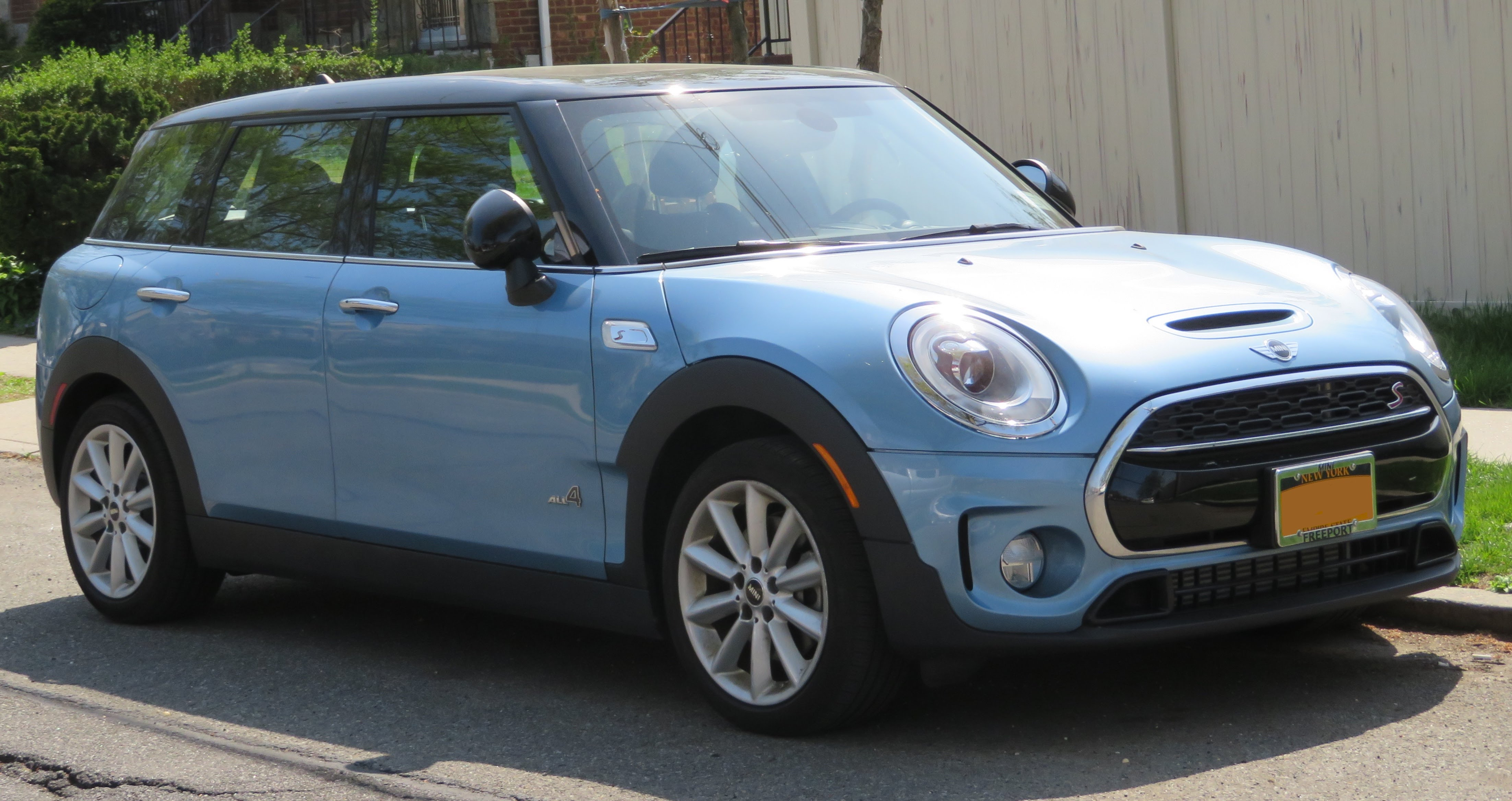 In Queens, New York